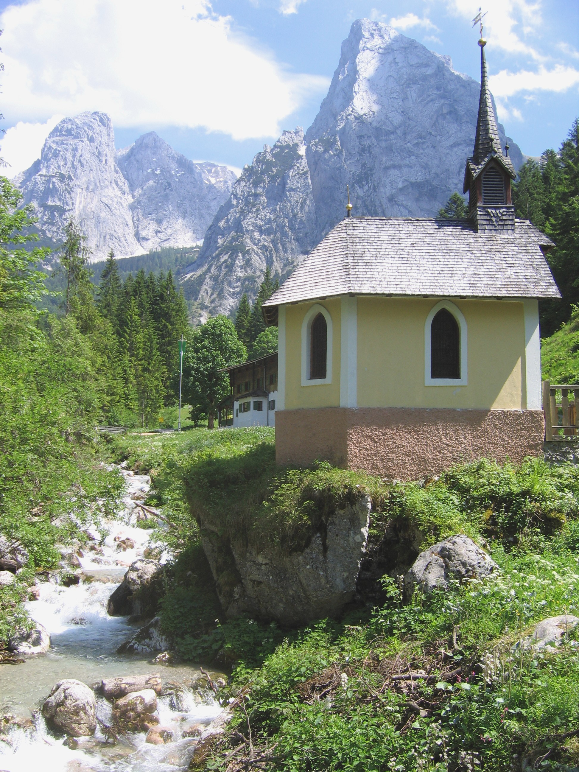 Anton-Karg-Haus (Hinterbärenbad) in Kaisertal/Tyrol. Mountains Totenkirchl (2190m) and Kleine Halt (2116) This media shows the remarkable cultural object in the Austrian state of Tyrol listed by the Tyrolean Art Cadastre with the ID 19231. (on tirisMaps, pdf, more images on Commons, Wikidata)